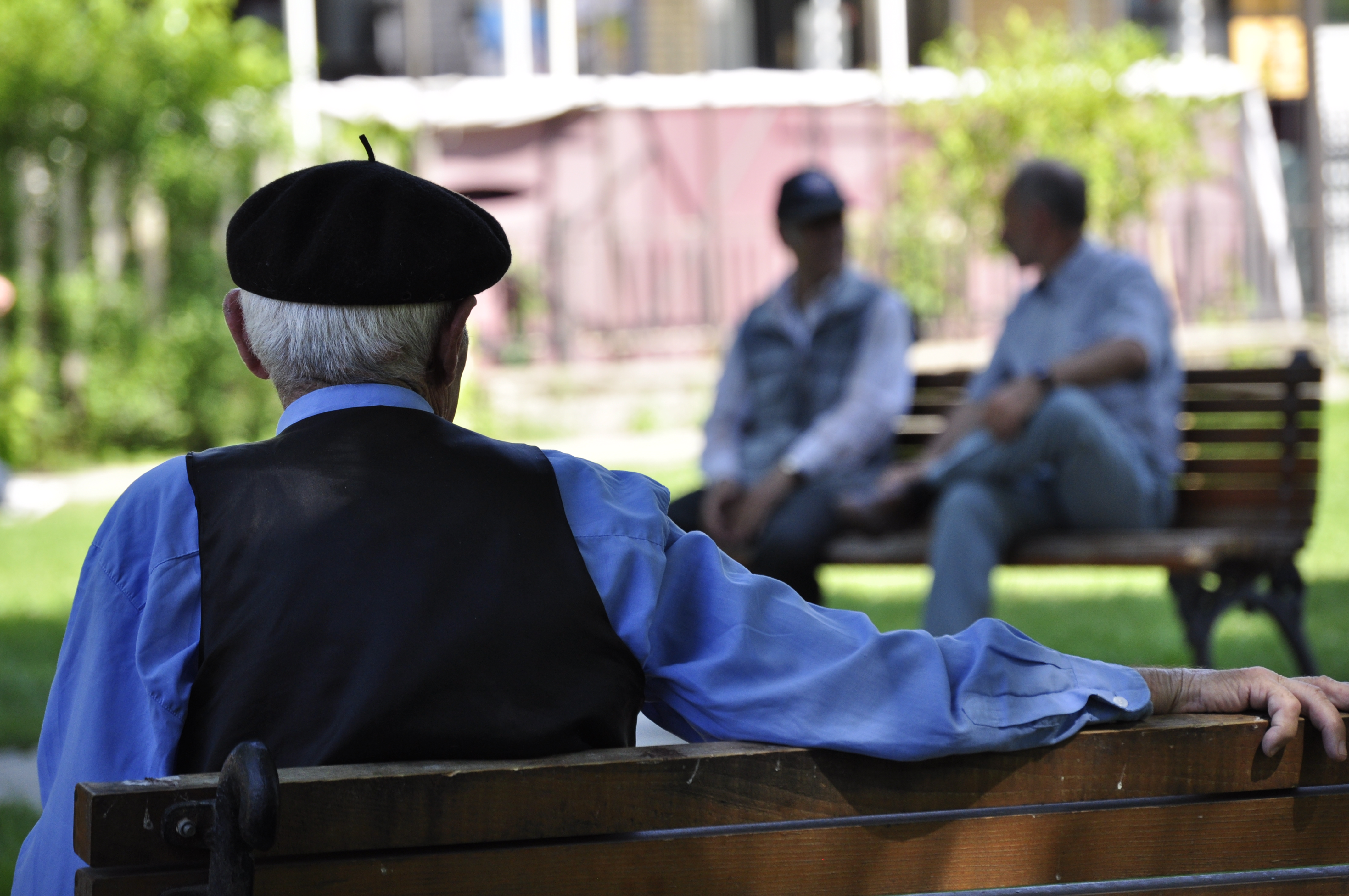 lonely old man in the park